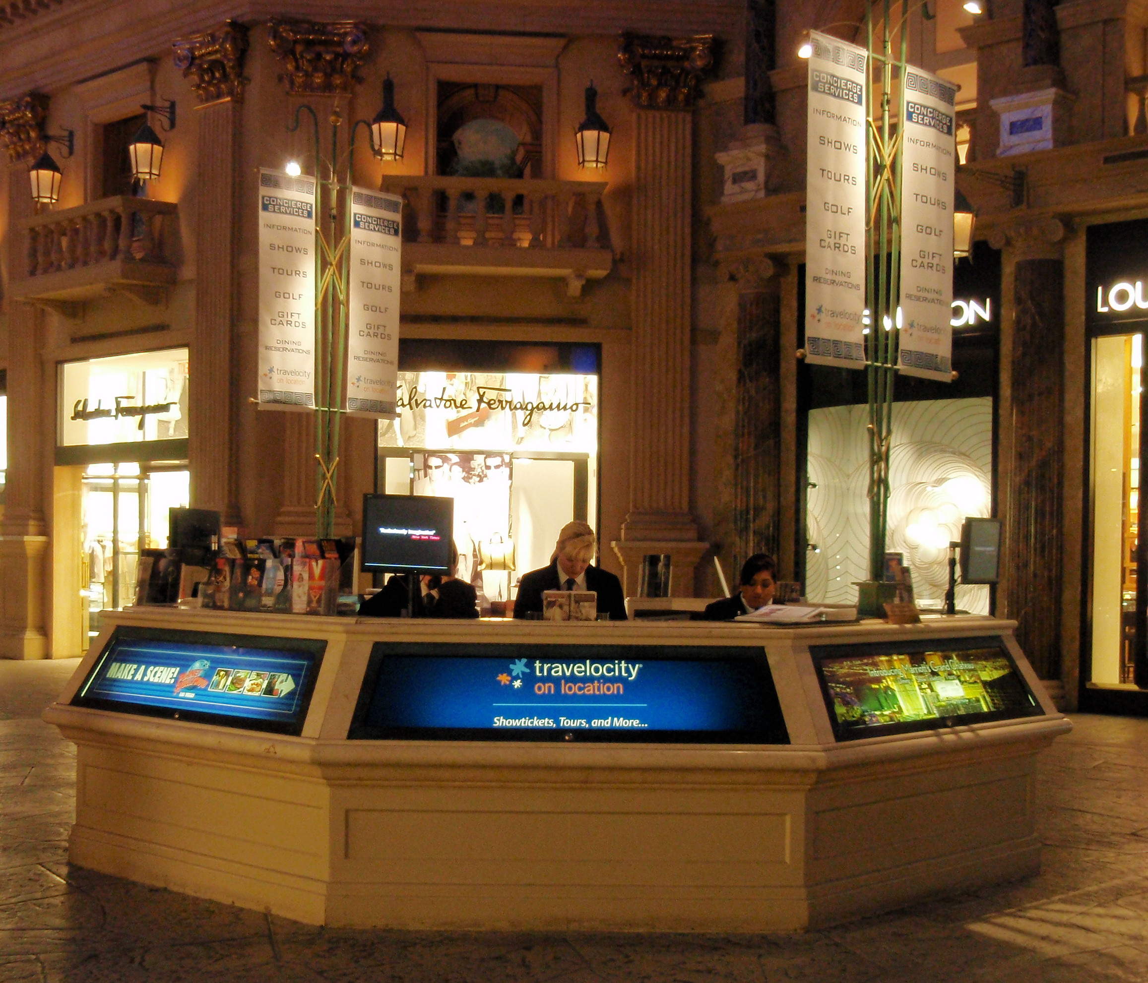 Travelocity On Location kiosk seen at The Forum Shops at Caesars in Las Vegas